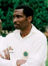 Former West Indian cricketer Roger Harper